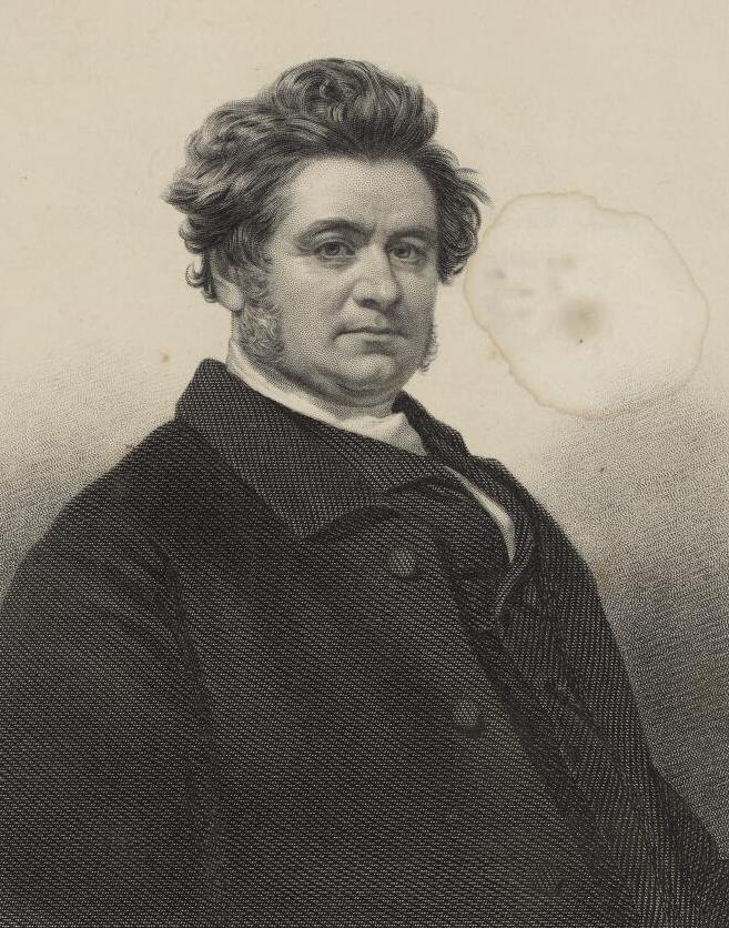 A portrait from the Welsh Portrait Collection at the National Library of Wales. Depicted person: Thomas Aubrey – Welsh Wesleyan Methodist minister